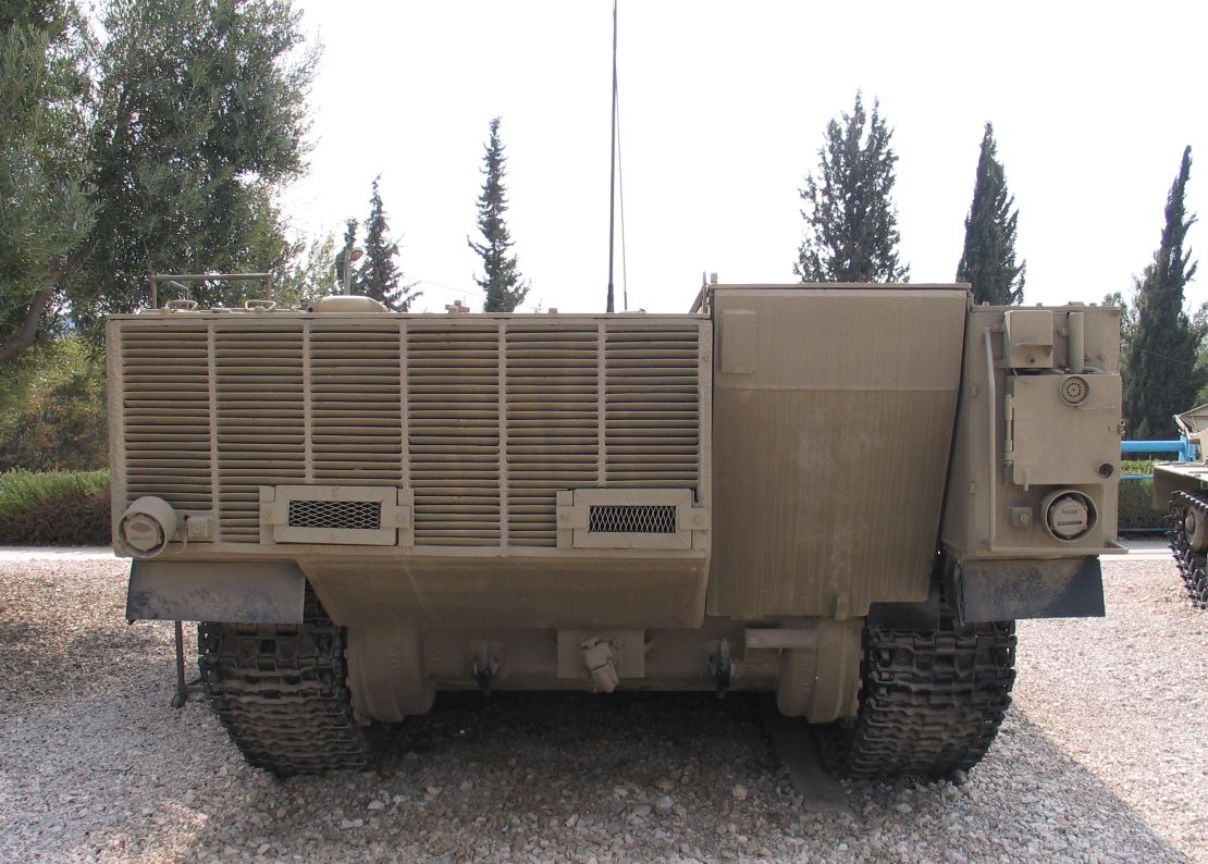 Description: Achzarit IFV in Yad la-Shiryon Museum, Israel. 2205. Source: Photo by me, User:Bukvoed.